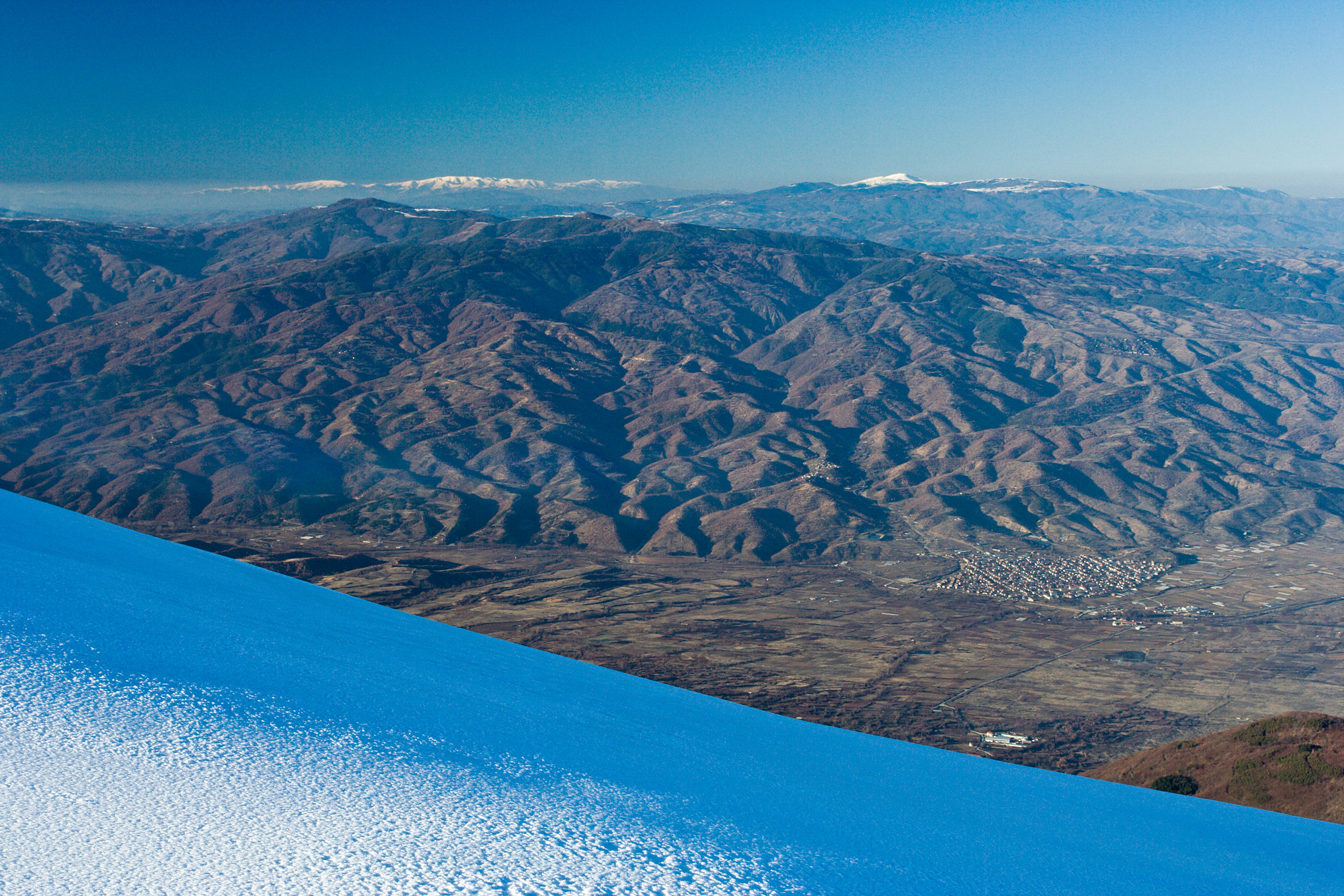 Ograzden mountain, picture taken from the nearby Belasitsa mountain.